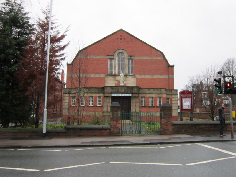 Our Lady of Lourdes Church, on Cardigan Road, Leeds